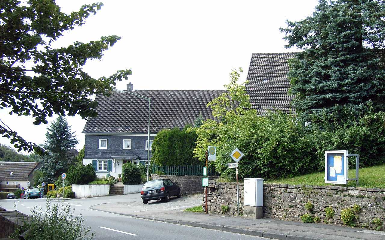 mainstreet of Berghausen, district of Gummersbach, North Rhine-Westphalia, Germany